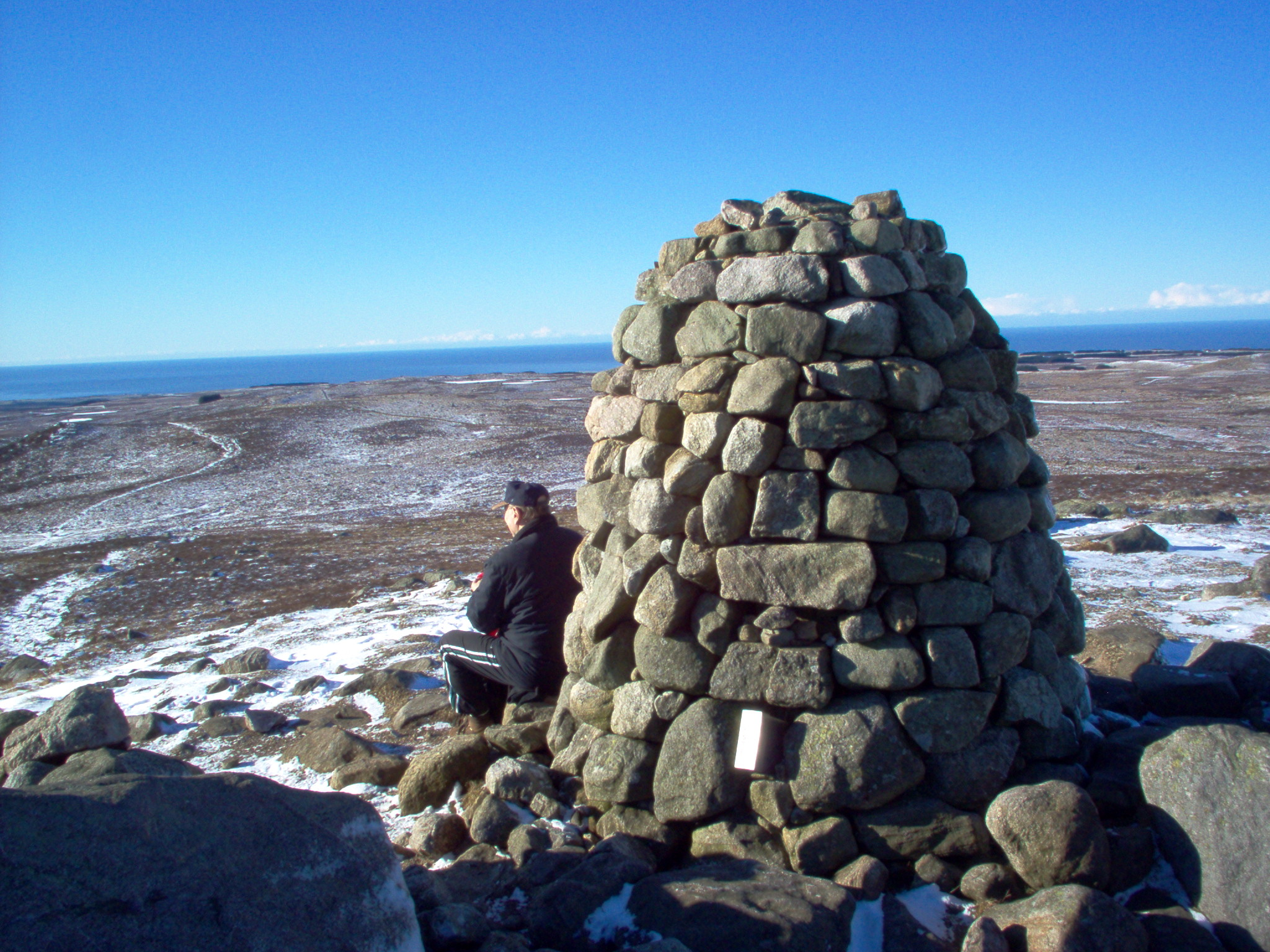 Stone Cairn — at Synesvarden in Time, in Rogaland, Norway. Feb. 2005.